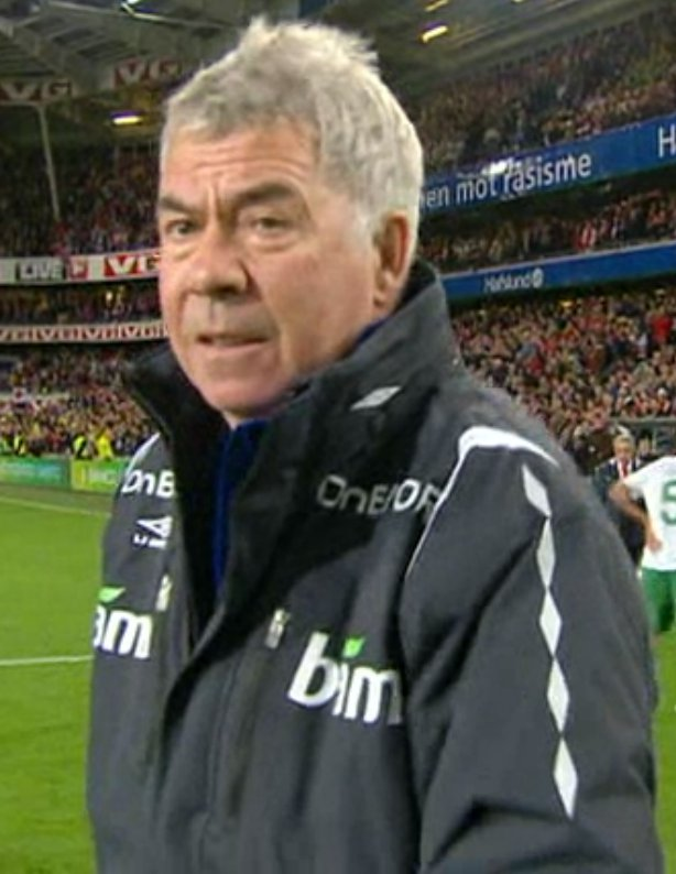 Drillo after the Norway 1-0 Portugal match finished.